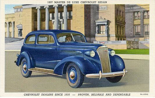 1937 Master De Luxe Chevrolet Sedan, Chevrolet dealers since 1916, proven, reliable, and dependable, Milwaukee Ave Motor Sales 2508 Milwaukee Ave